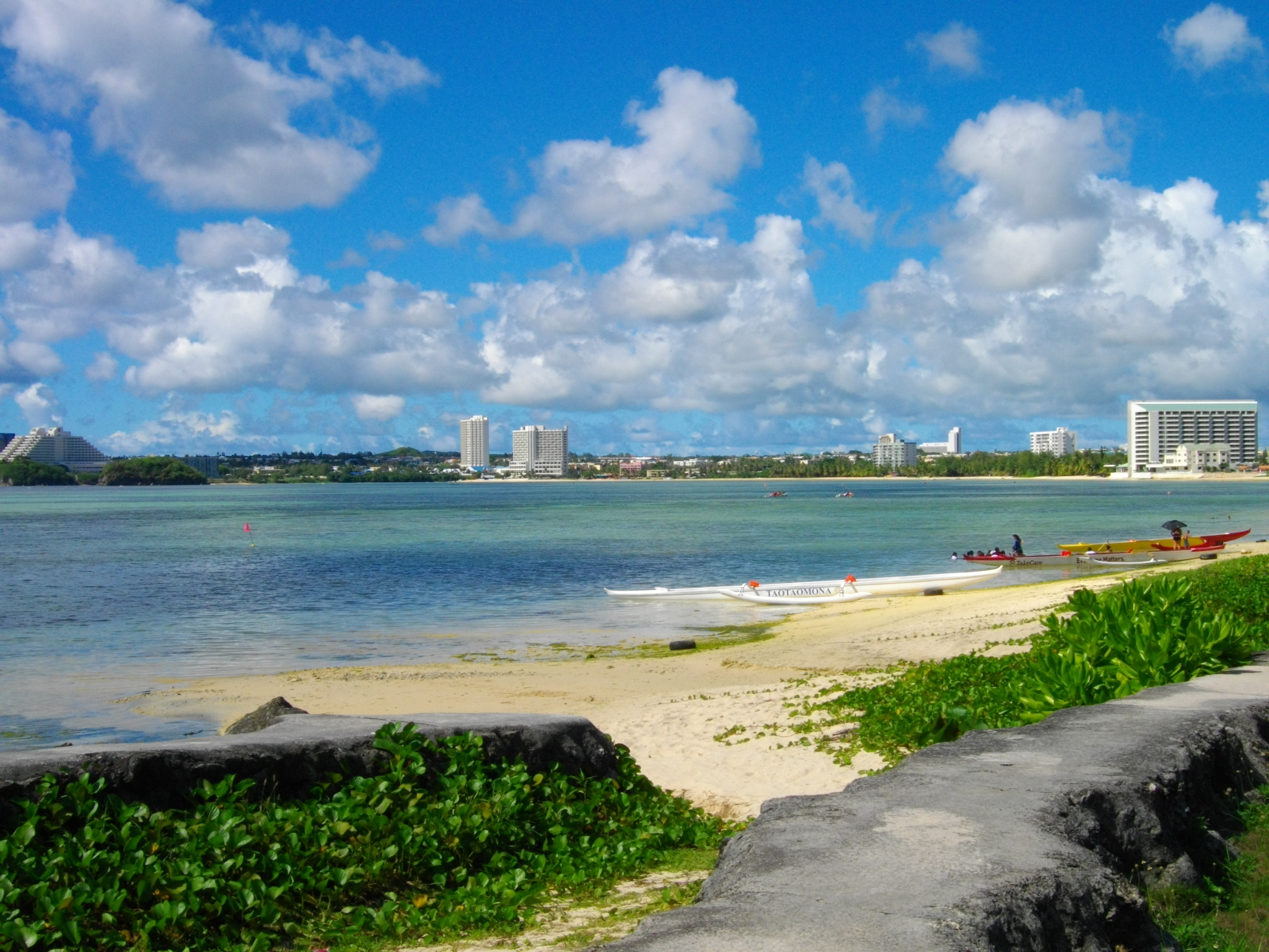 Trinchera Beach